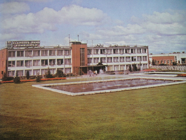 Kadras iš Alberto Brogos, Algimanto Garliausko, Jono Gurecko knygos "Klaipėda" (1983m)